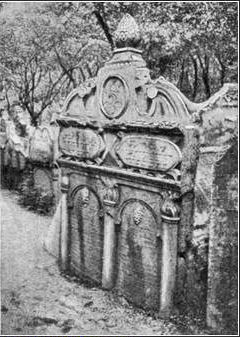 Tombstone of Judah Löw ben Bezaleel at Prague